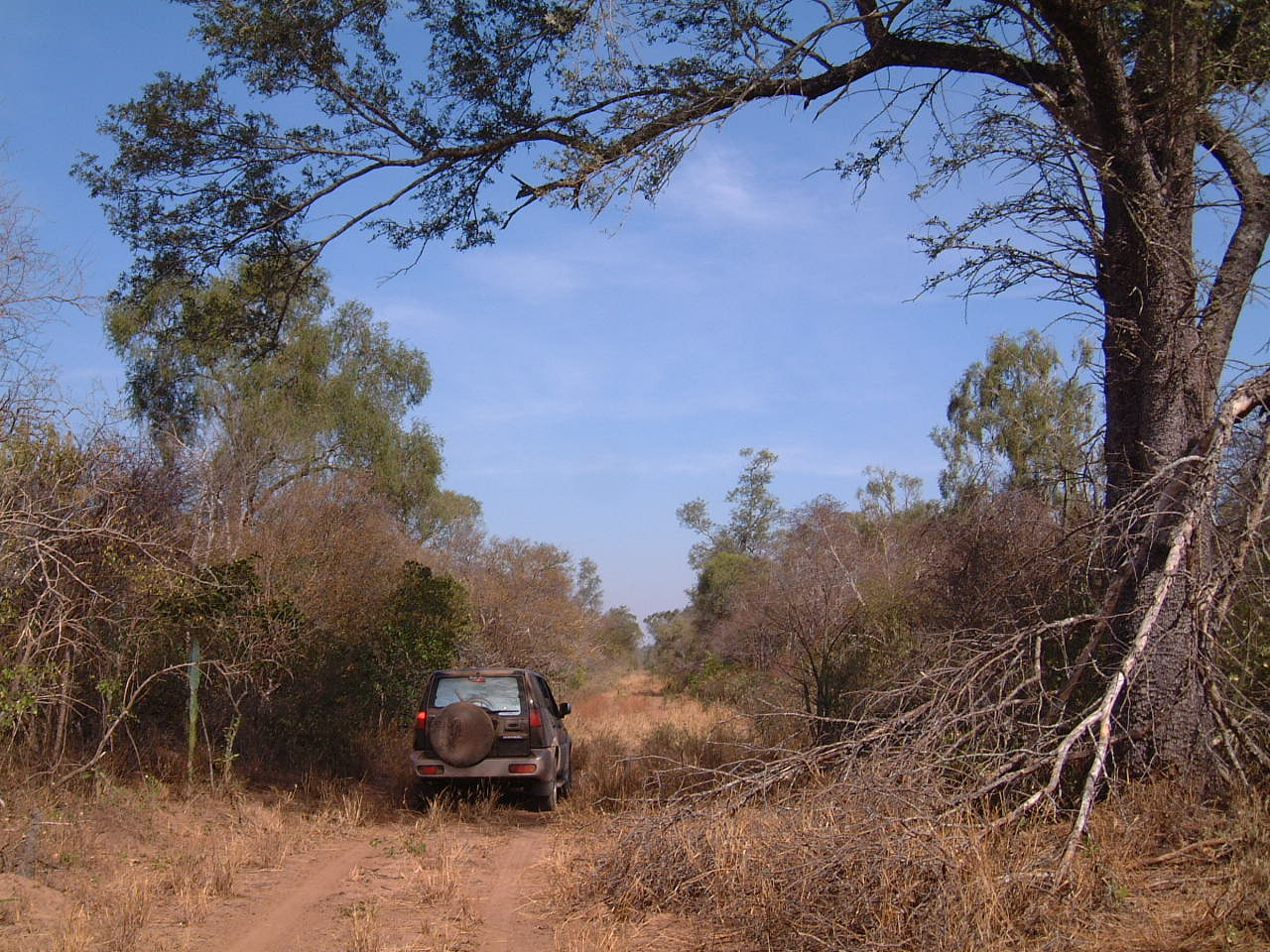 Paraguay Chaco, Agua Dulce / Palmar de las Islas Area, Alto Paraguay Department. High growth xerophytic seasonably dry forest (during dry season June 2007))